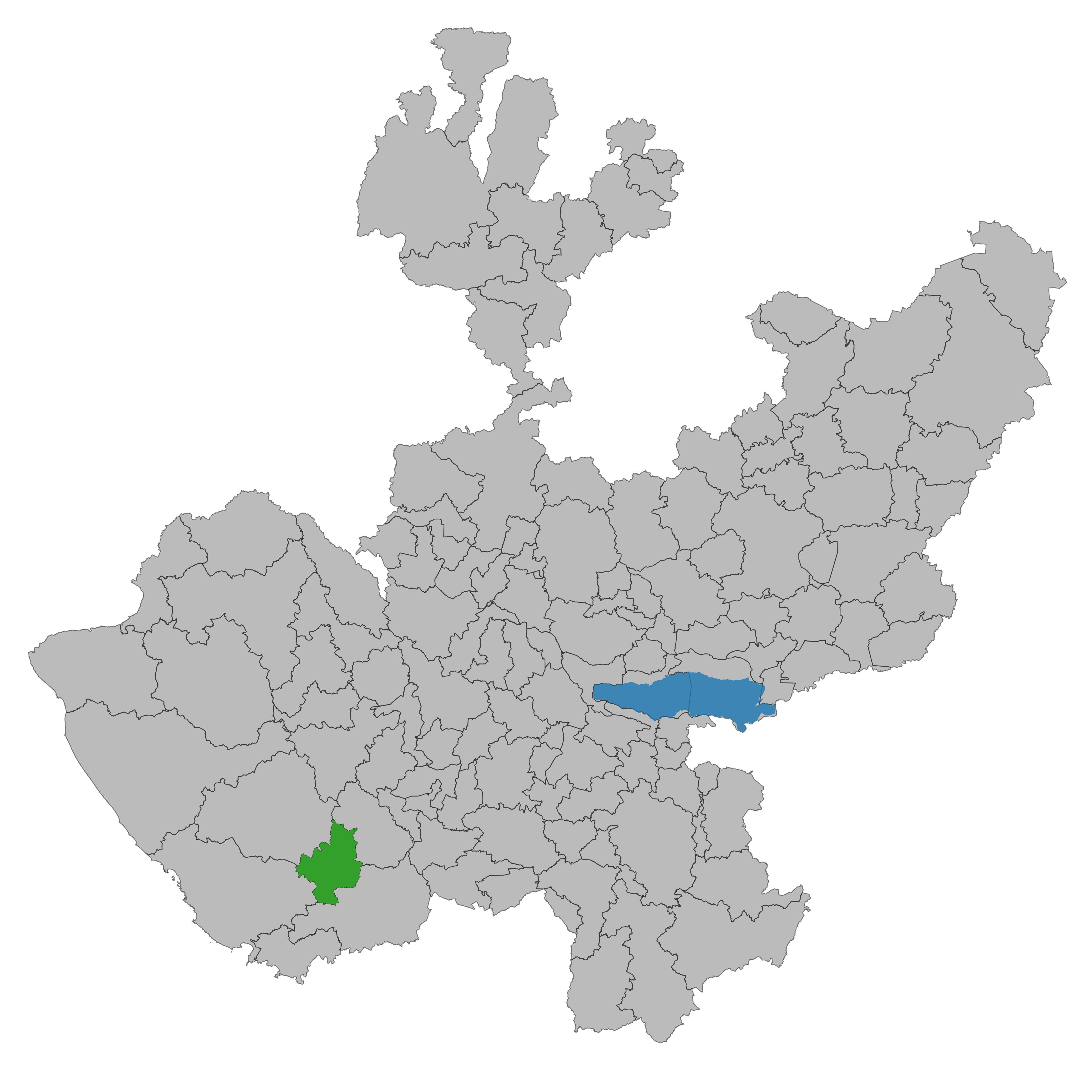 Municipality of Jalisco. Prepared with the software QGIS version 2.8.2 Wien & with information of SCINCE 2010 version 05/2013